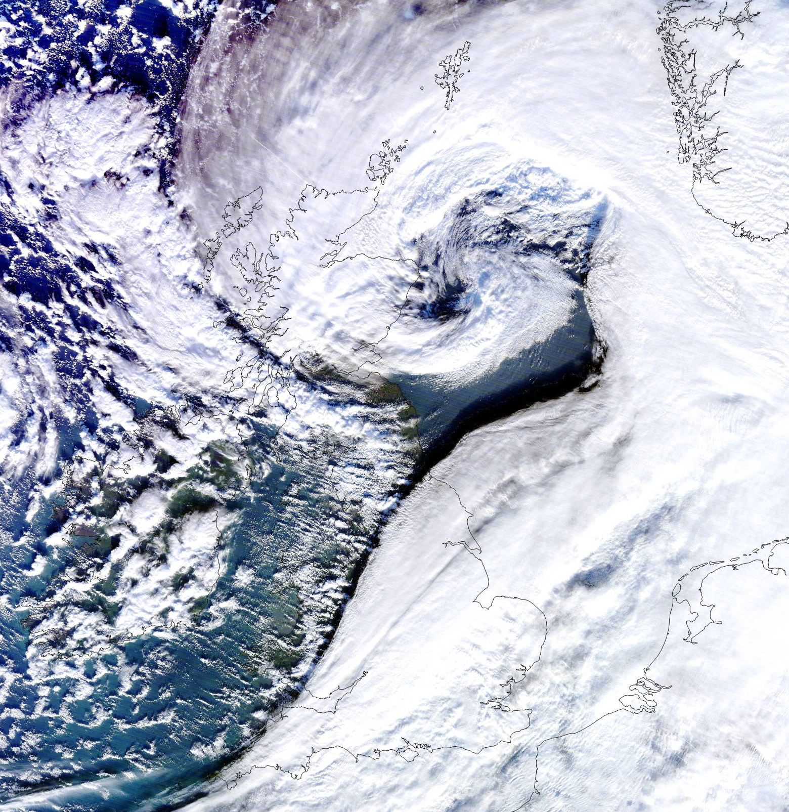 Intense Cyclone Ulli situated to the north-east of Scotland.